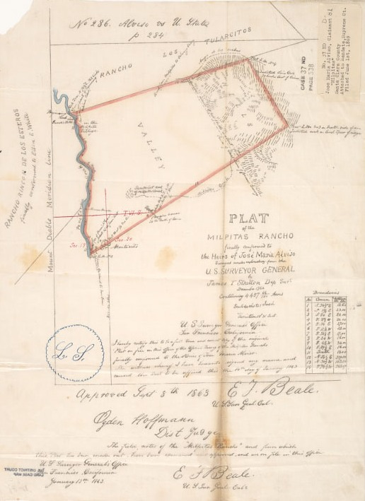 Plat (map) of the Rancho Milpitas, Santa Clara County, California, USA, finally confirmed to the heirs of José Maria Alviso